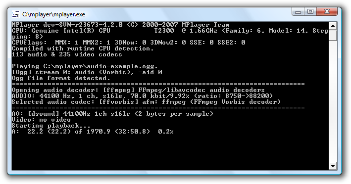 MPlayer being run via command line in Vista.